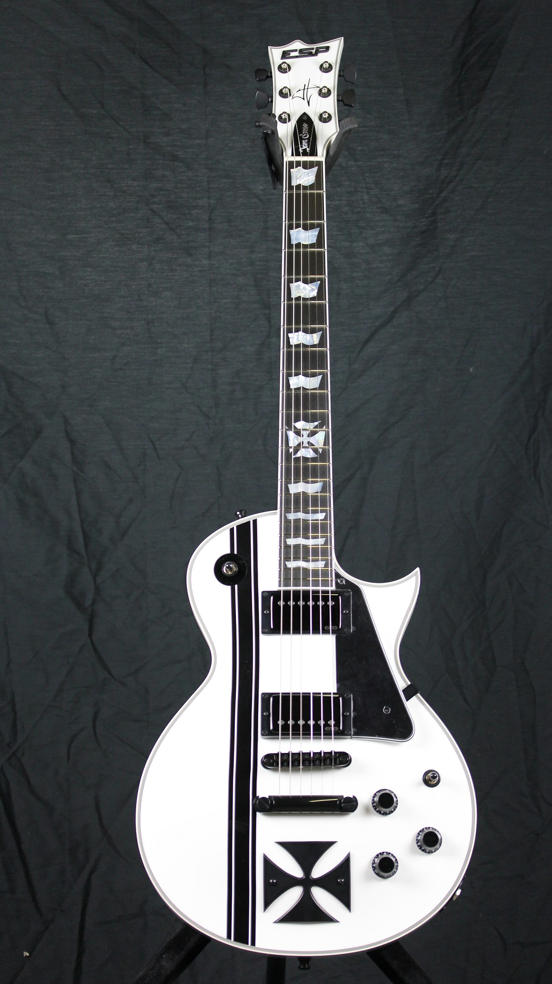 The ESP Iron Cross Snow White is built in the Kiso Japan Custom Shop Factory, it the much desired "K" serial number for the ESP Kiso Custom Shop Factory. The guitar includes a Certificate of Authenticity (COA) and an Original ESP Hardshell Form Fit Case. This guitar is a 2014 only model and is not limited in terms of numbers but only by how many are actually ordered in 2014.